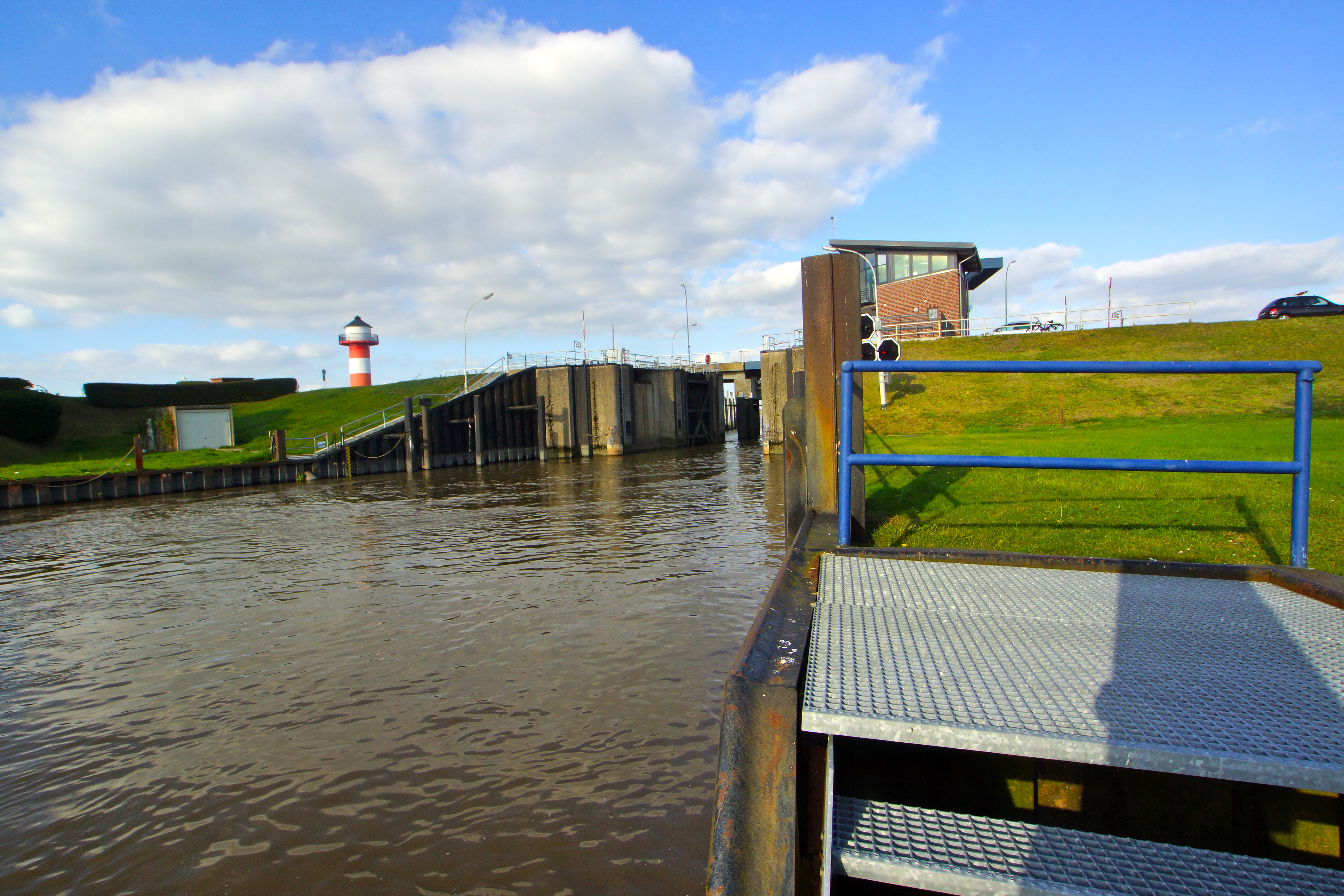 Jork (Borstel), Germany: The river Luhe